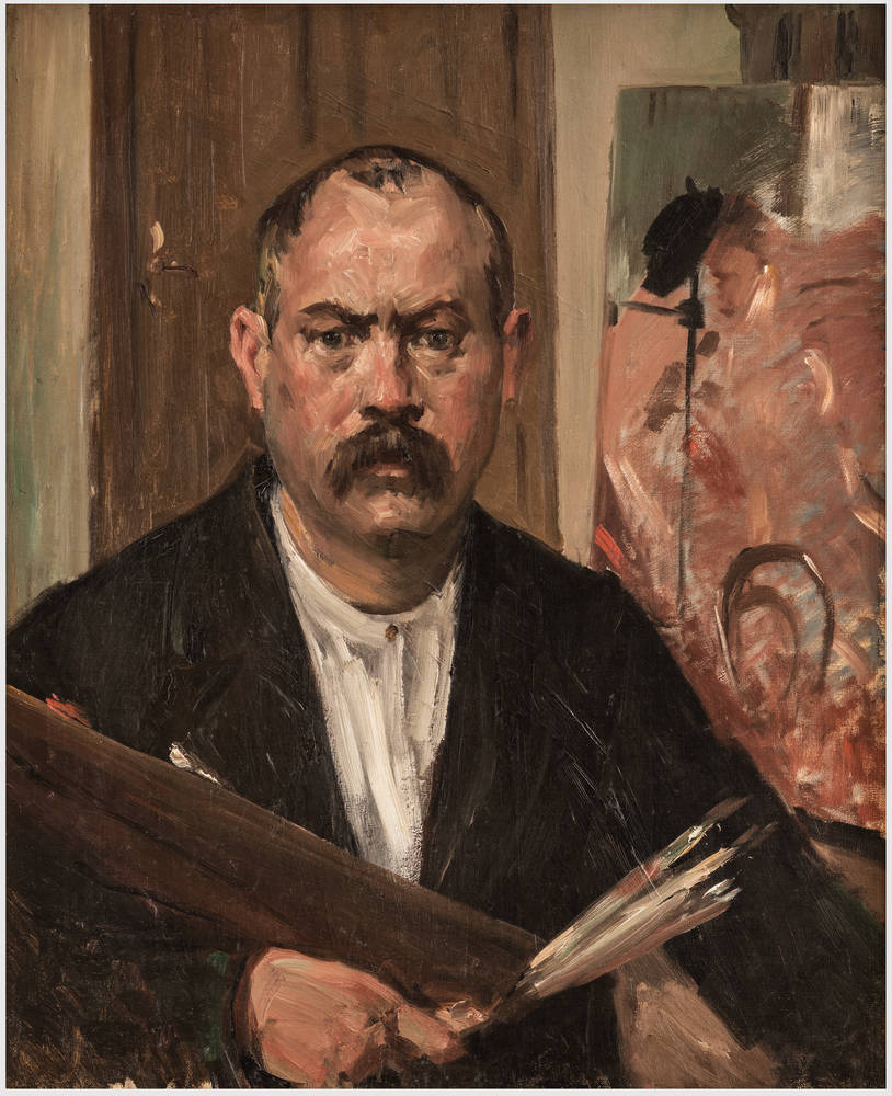 Corinth's first portrait in Berlin (probably made in his studio in Lützowstraße) represents the first self-portrait in a long series.